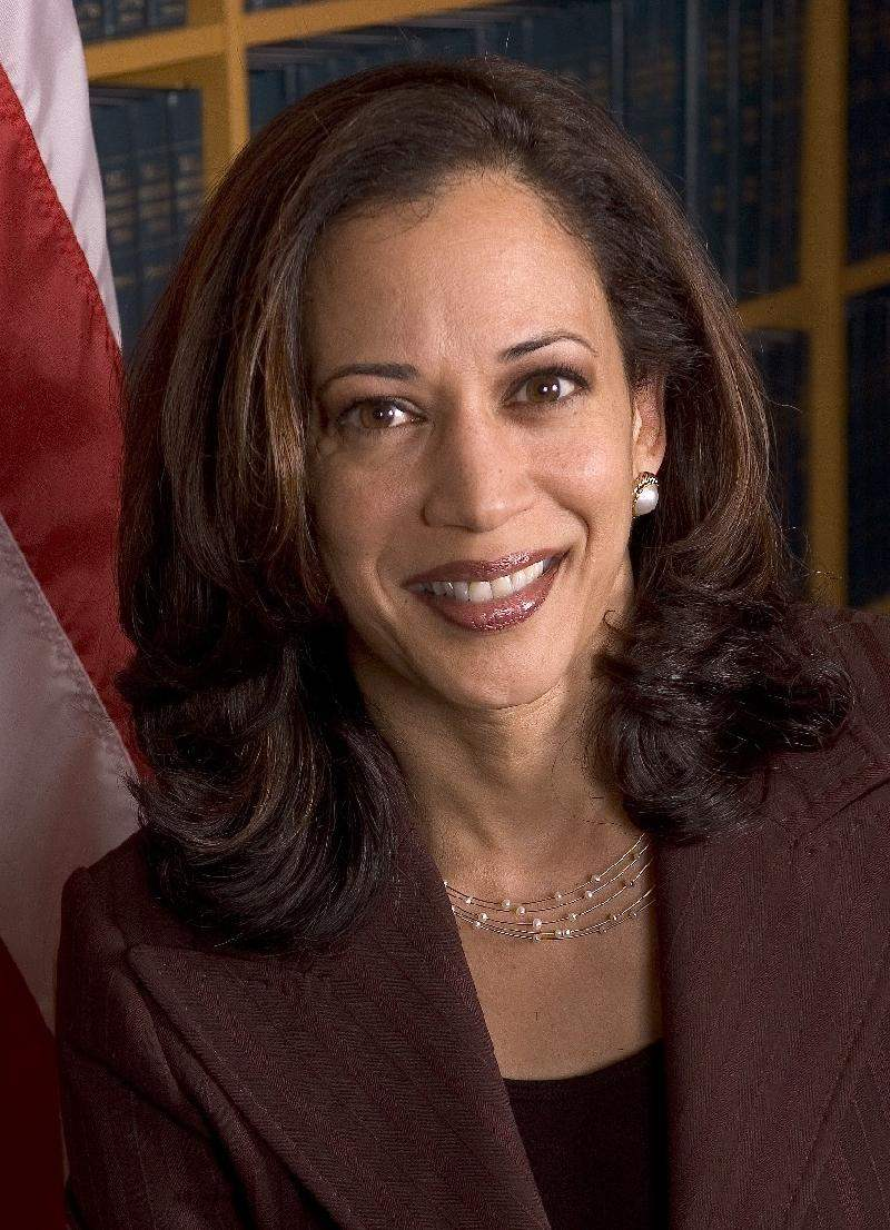 Kamala Harris as District Attorney of San Francisco.